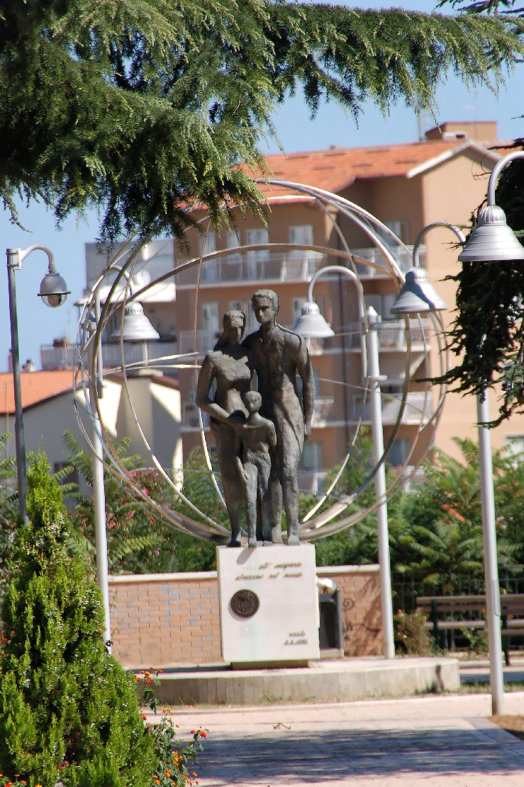 Vasto 2011